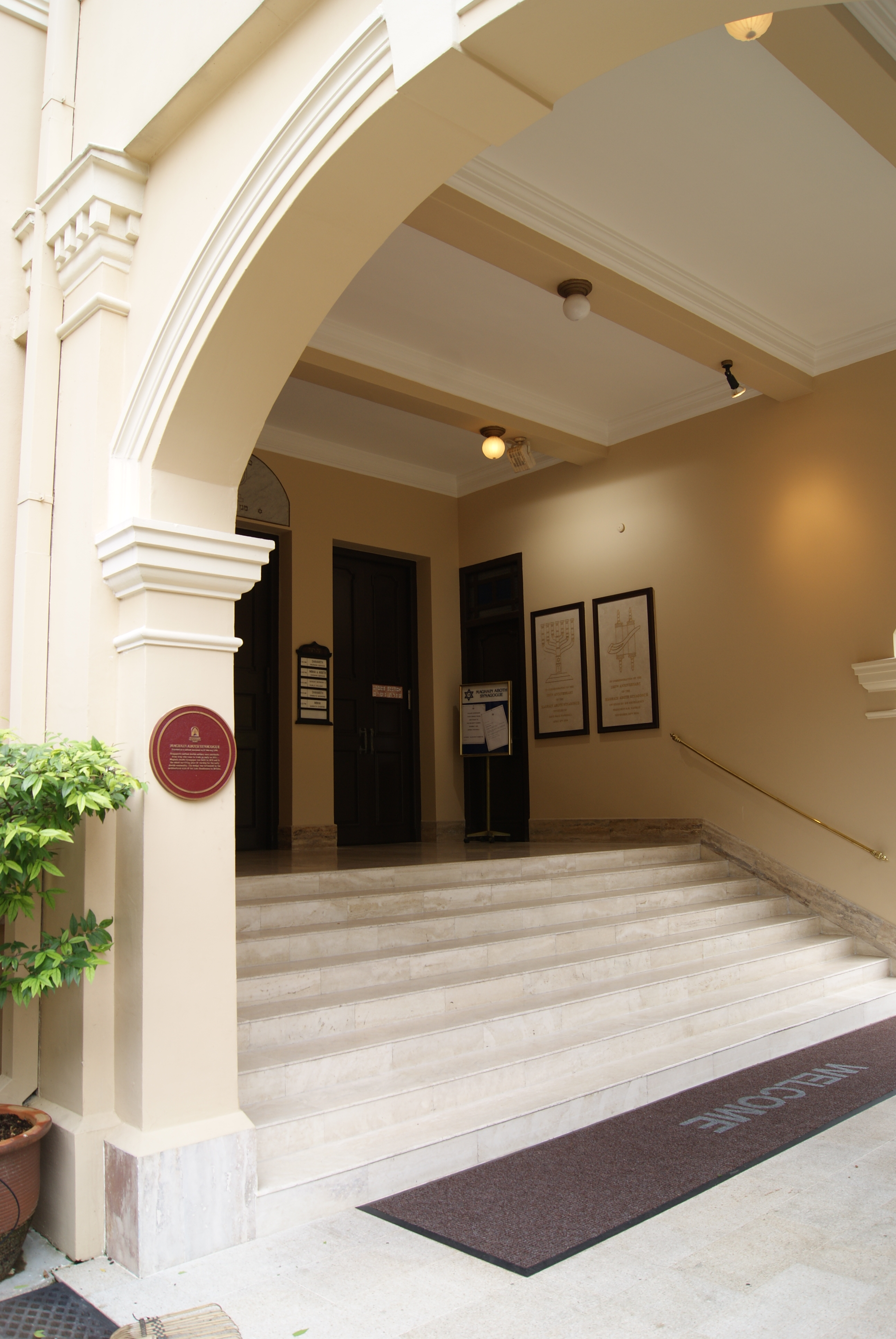 The porte-cochère of Maghain Aboth Synagogue, Singapore.